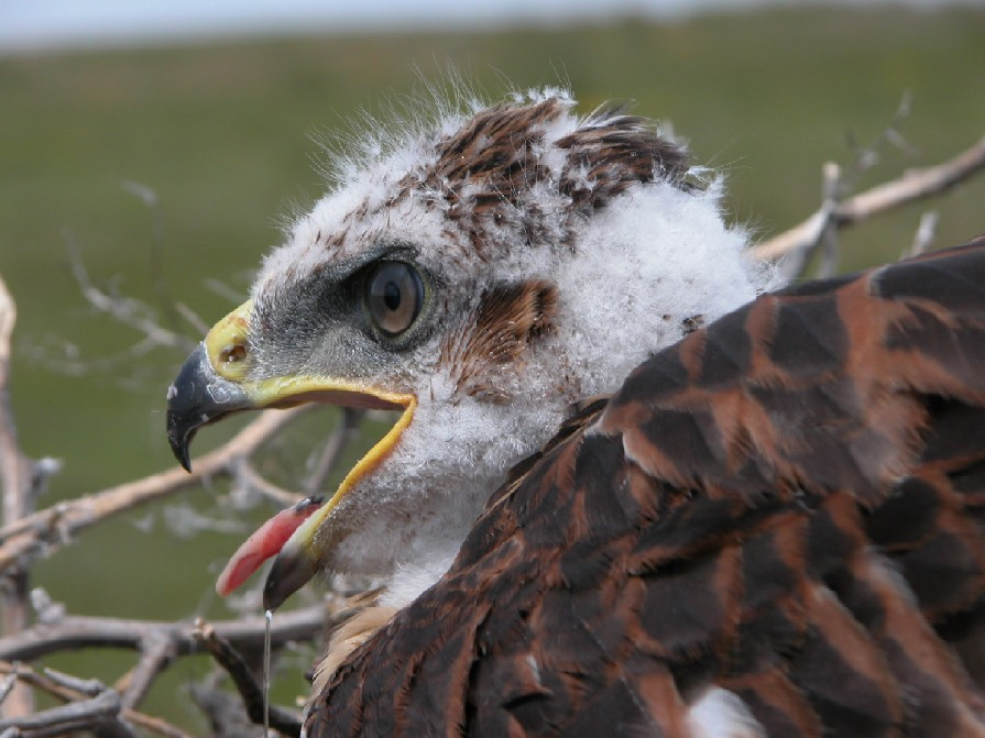 Buteo regalis in Boise, ID, USA